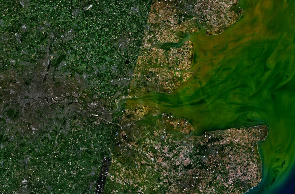 Thames Estuary